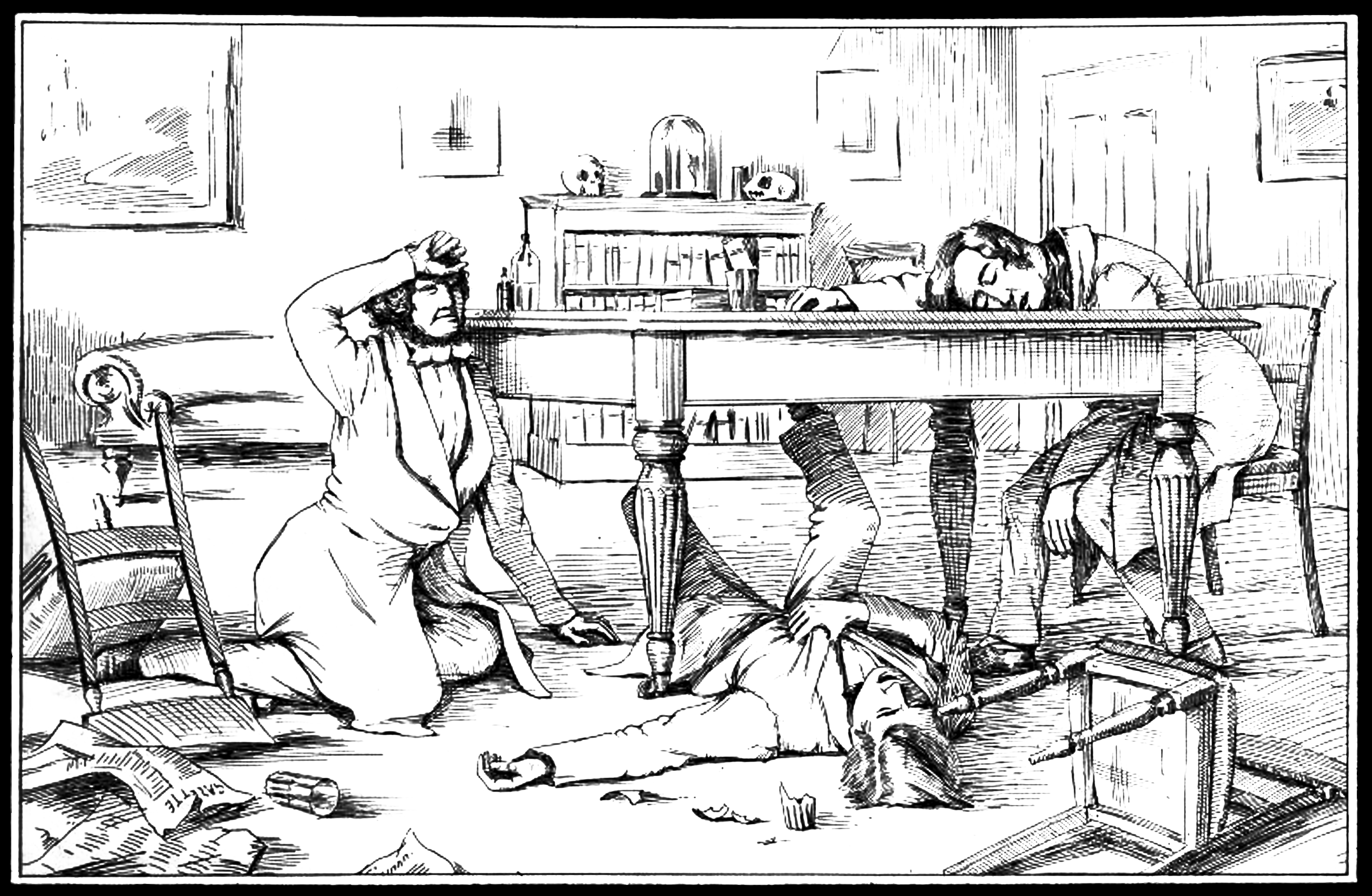 The effects of liquid chloroform on Sir J. Y. Simpson and his friends. The shattered drinking-glass used by one of the experimenters lies on the floor.